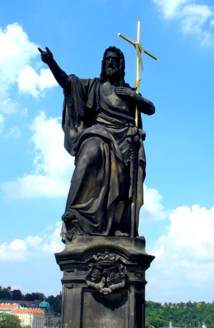 Statue of saint John on Charles Bridge, Prague